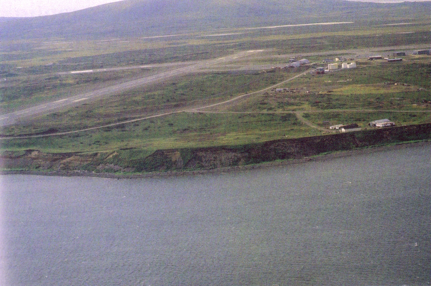 Cold Bay. The runways of Cold Bay Airport are visible, with one running from the left center edge to the upper center of the photograph and the other running from upper left center to the upper right edge behind the buildings.